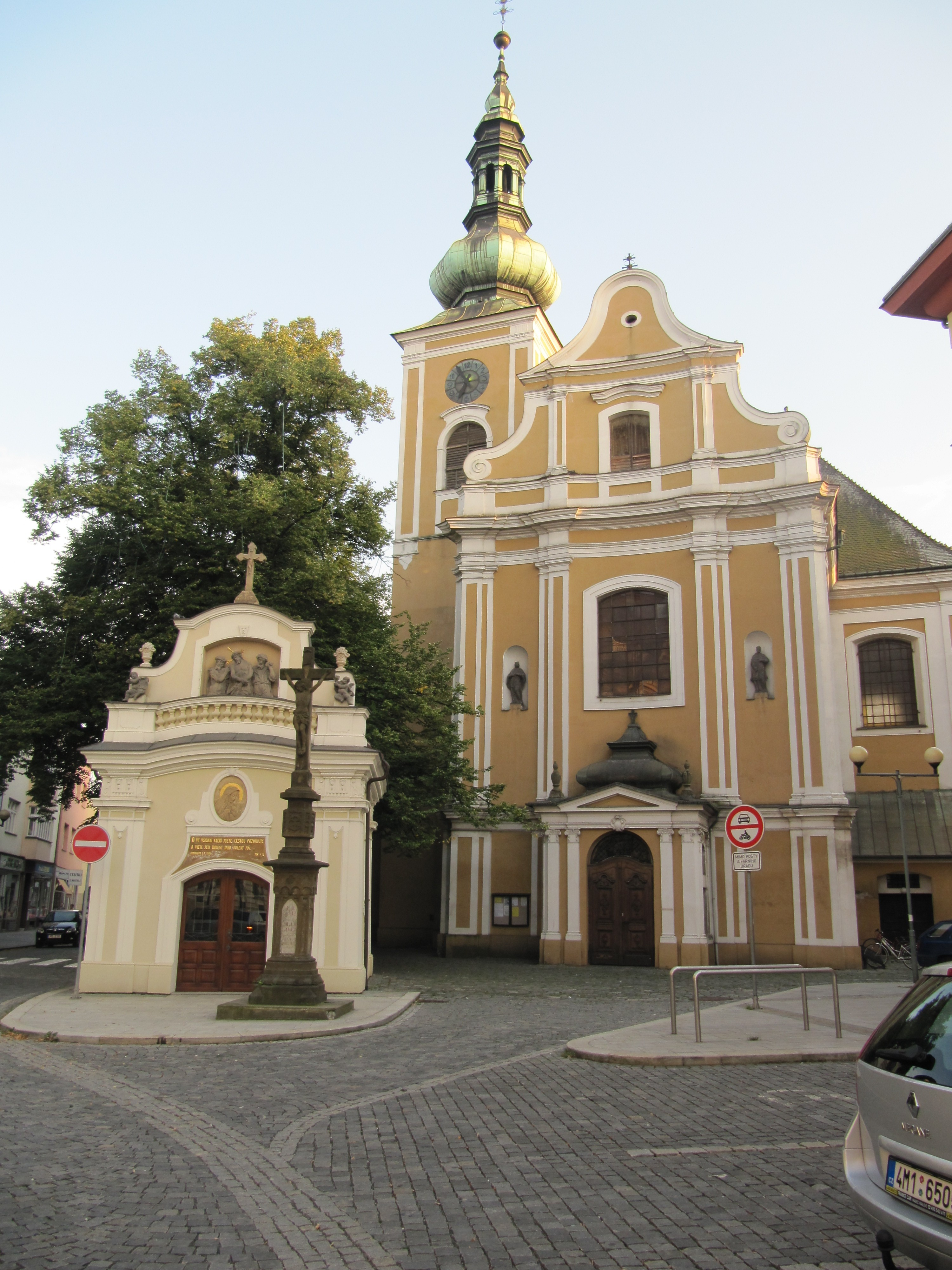 Přerov , Czech Republic. Church of St. Lawrence and the chapel of Our Lady. This photograph was taken within the scope of the third year of the 'Czech Municipalities Photographs' grant.